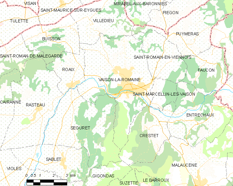 Map of French municipality Vaison-la-Romaine